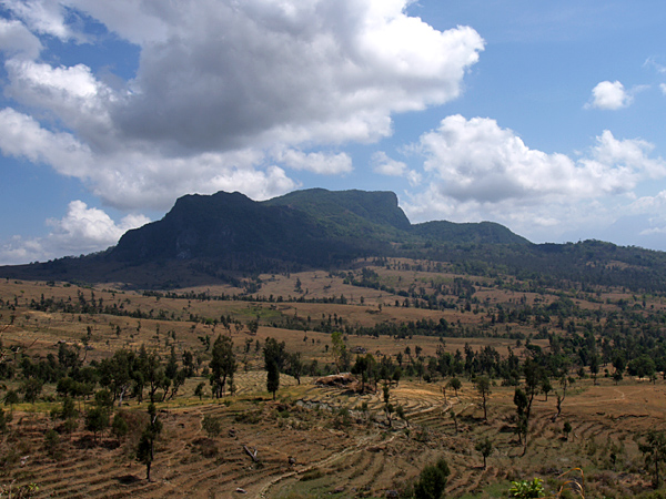 Mountains over Viqueque rice fields, East Timor